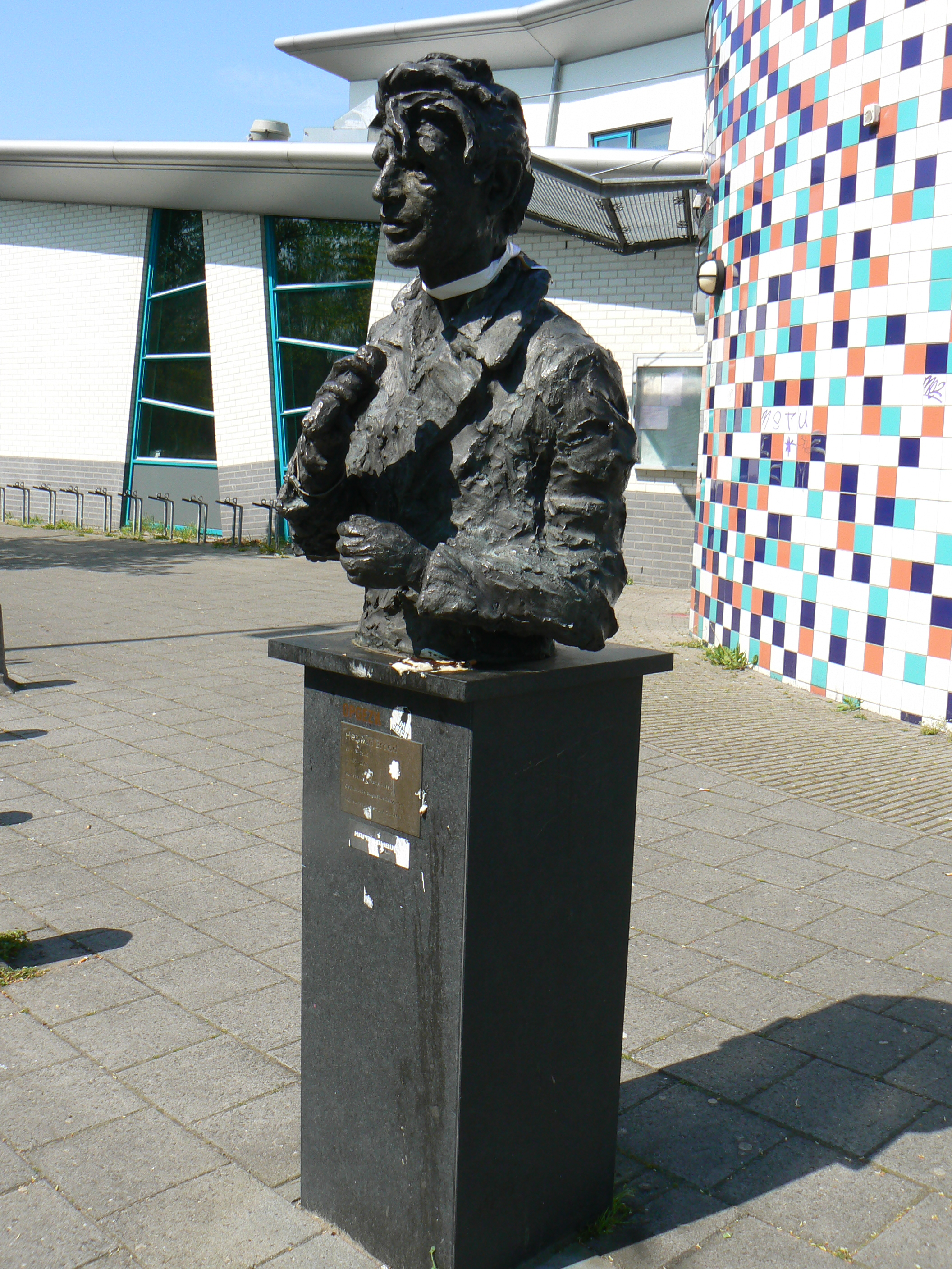 bust Herman Brood (2002) by Frank Rosen in Zwolle/The Netherlands